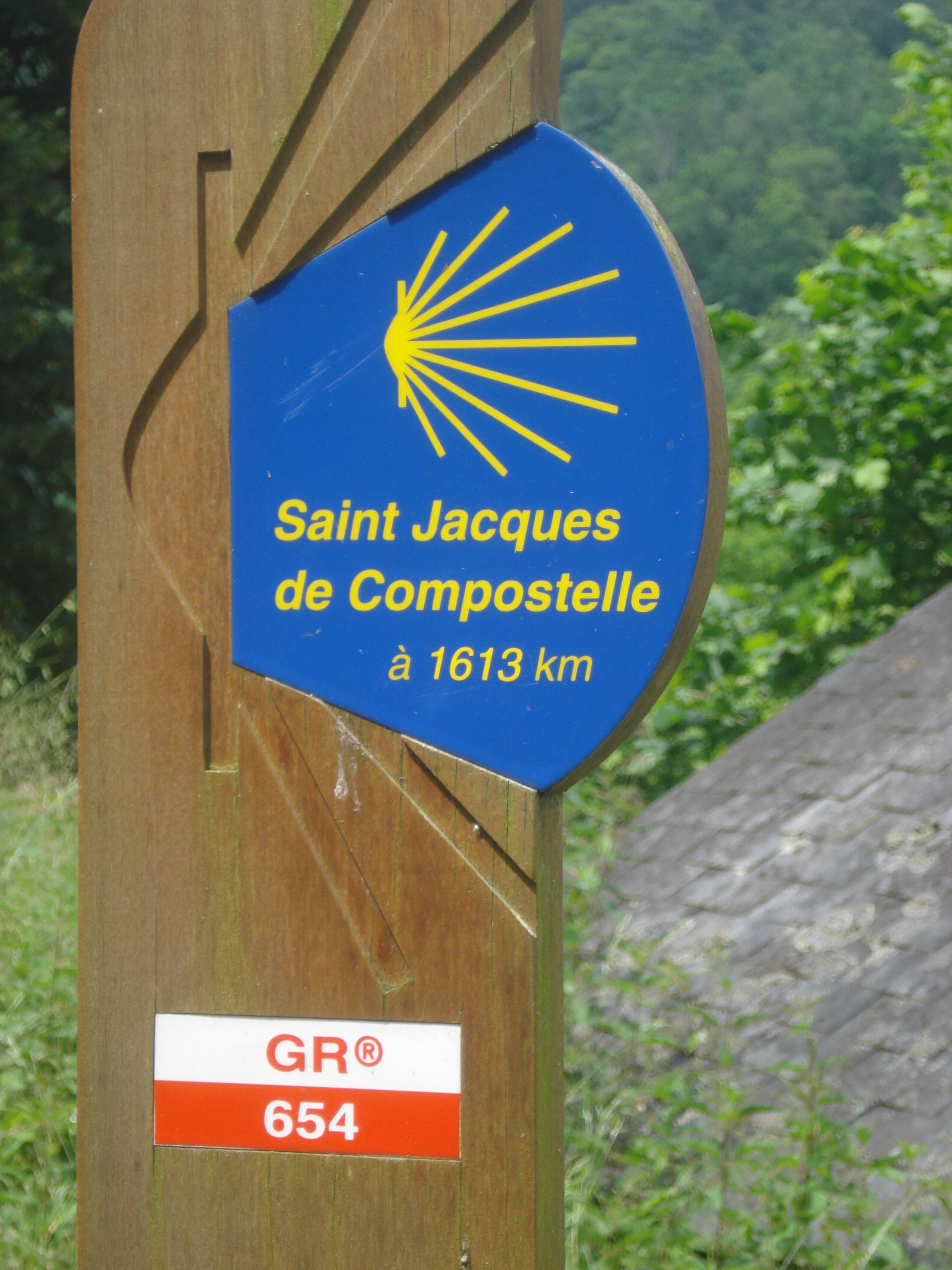 waymarks at Crozant (Creuse, Fr) St.James way and GR654